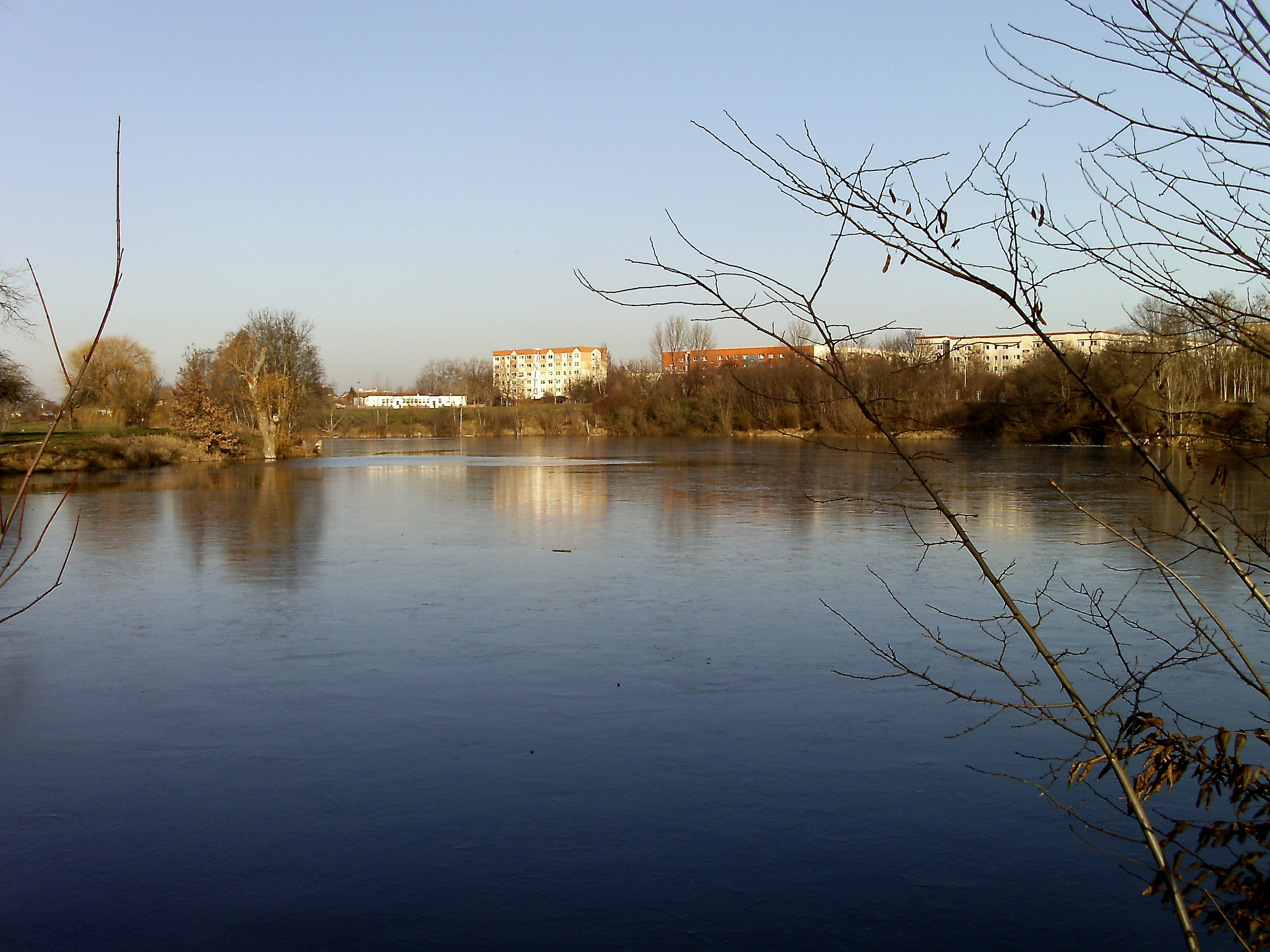 Former gravel pit of Thekla (Leipzig, Saxony), now Leipzig North-east Swimming-bath